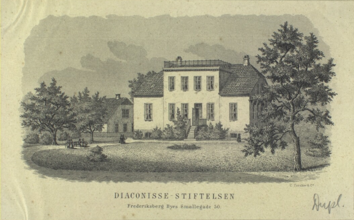 The former building of DiaconisseStiftelsen in Smallegade in Frederiksberg, Denmark